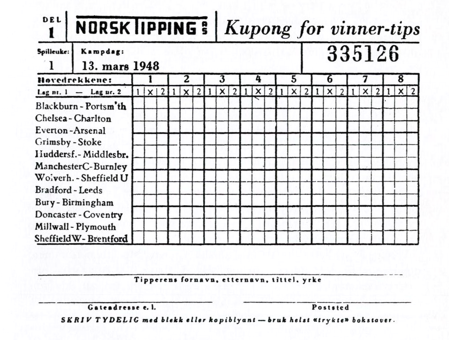 Lottery form from Norwegian state monopoly Norsk Tipping 1948